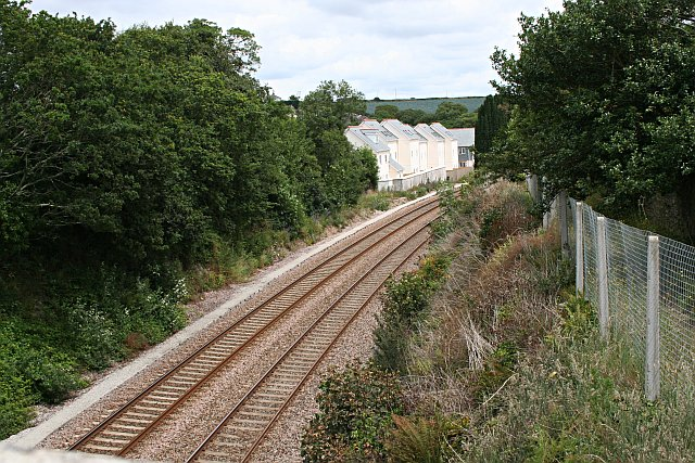 The Railway Line through Grampound Road. This photo was taken from the road bridge crossing the line. The very bright new houses are built where the railway station used to be.